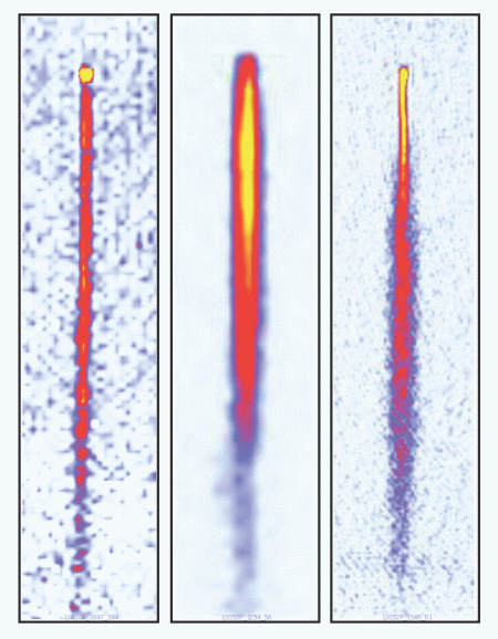 Three types of atom laser: (a) a well-collimated atom laser beam, (b) an ultra-high flux atom laser, and (c) atom beam combining atom laser and thermal emission.